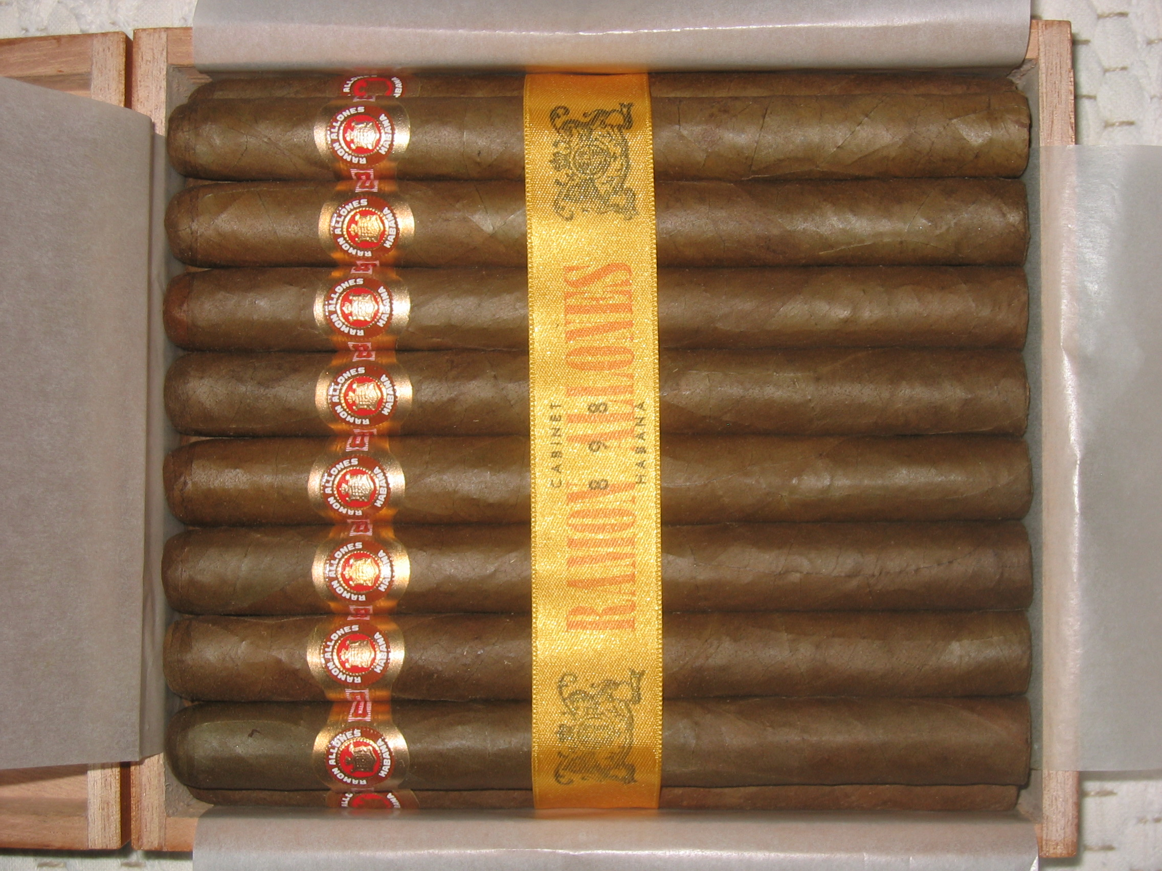 Ramon Allones 898 cigars (OSU MAR 02) from Cuba